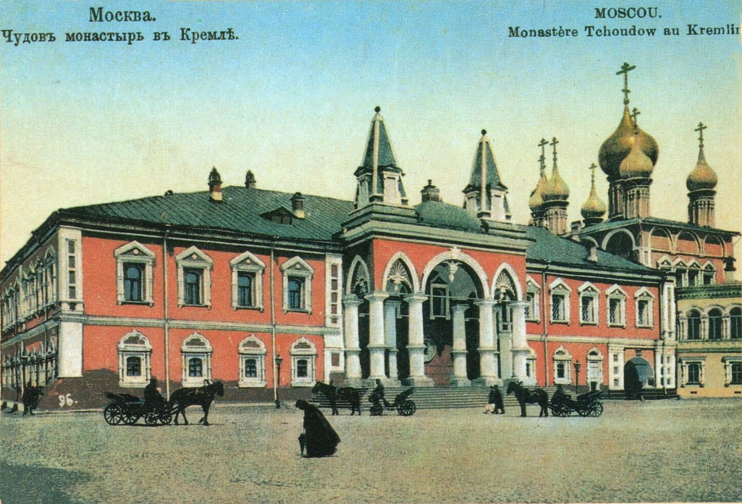 pre-revolutionaty russian postcard of Chudov Monastery in the Kremlin